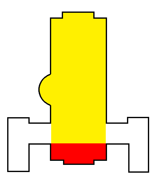 Expansion Stages of Massachusetts State House, Boston, USA